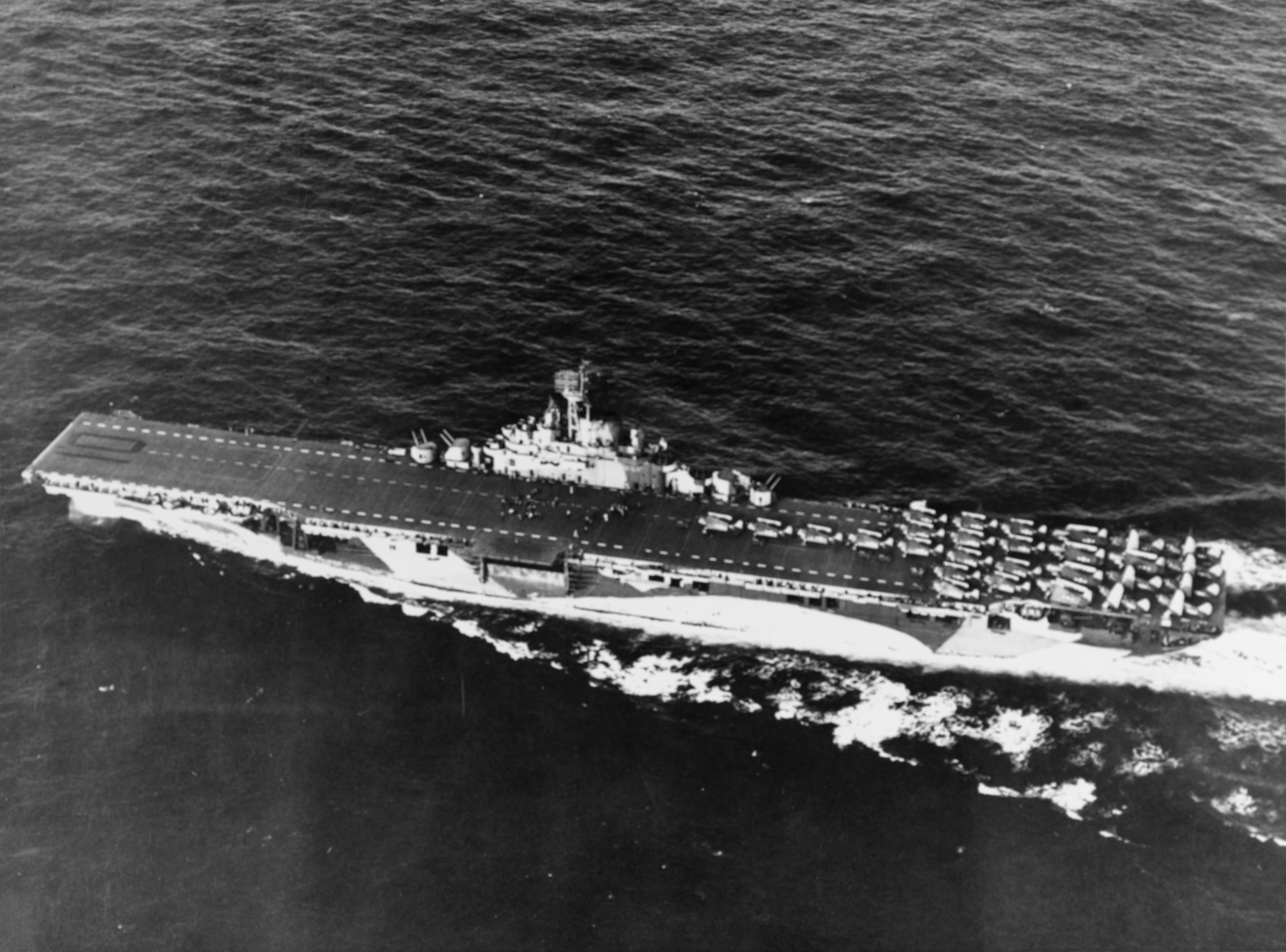 The U.S. Navy aircraft carrier USS Yorktown (CV-10) underway during the Marianas operation, in June 1944. The ship is painted in Camouflage Measure 33, Design 10A. Aircraft of Carrier Air Group 1 (CVG-1) are spotted on the flight deck: 16 Grumman F6F Hellcat fighters, five Grumman TBF Avenger torpedo bombers, and seven Curtiss SB2C Helldiver dive bombers. The photograph was received by the U.S. Naval Photographic Science Laboratory on 17 July 1944.